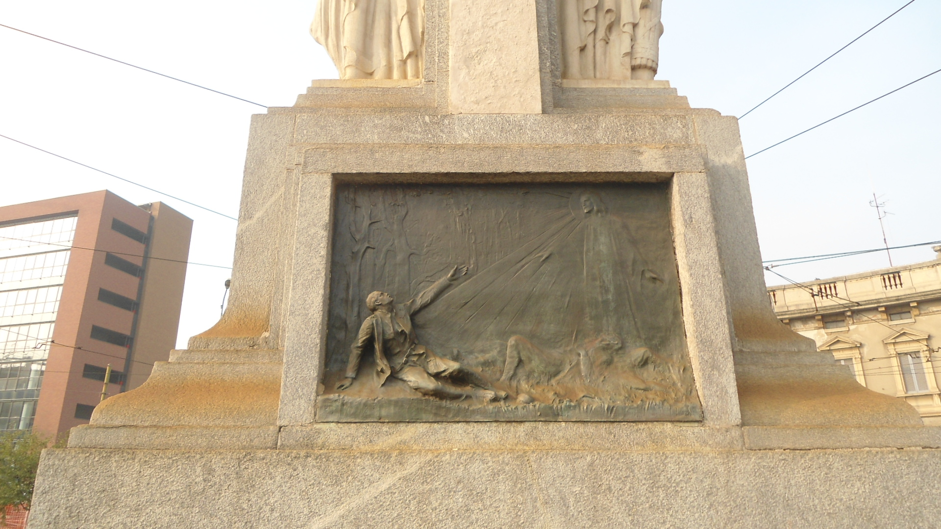 Bas-relief of Musocco War Memorial: at south the death of the soldier